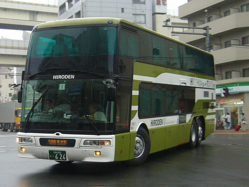 A highway Hiroden Bus car, Hiroshima.